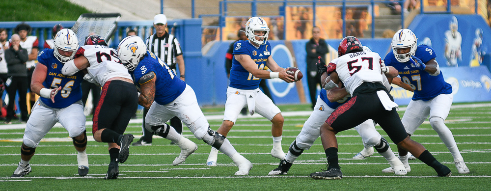 Quarterback Josh Love of San Jose State takes a snap vs San Diego State on 10/19/2019. Photo by Hammer Down Sports